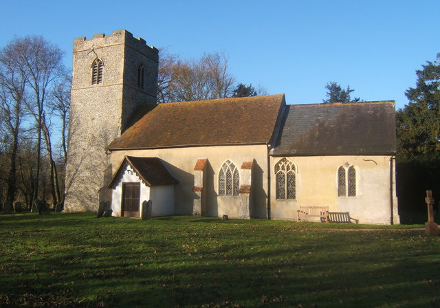 Church of St Mary in Naughton, Suffolk, England. A Grade I listed medieval church.